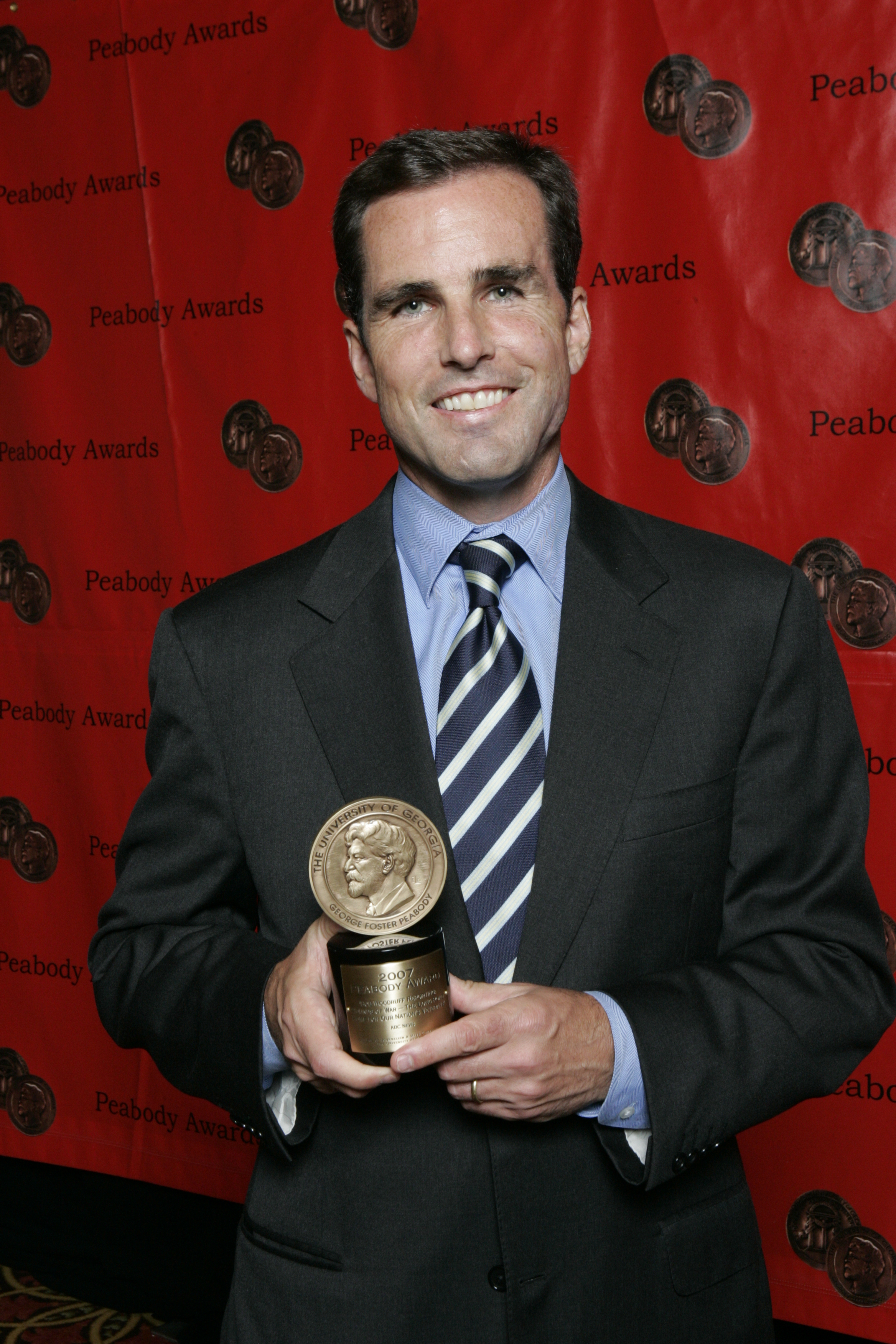 Bob Woodruff 67th Annual Peabody Awards Luncheon Waldorf=Astoria Hotel New York, NY USA June 16, 2008